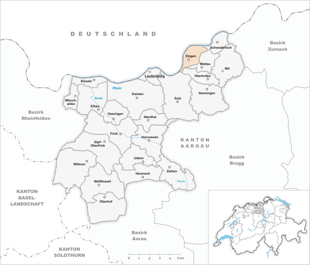 Municipality Etzgen